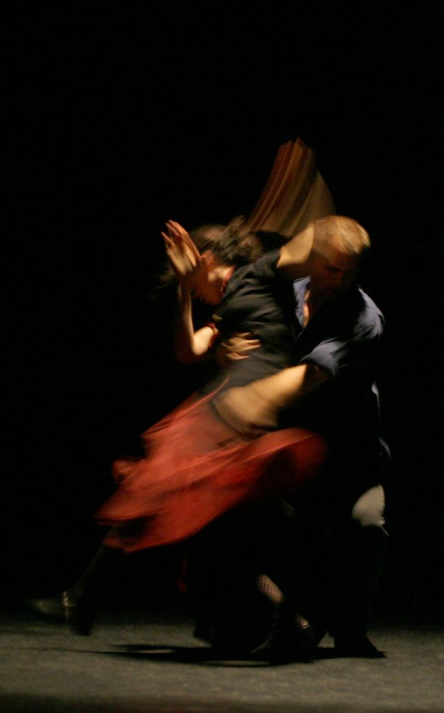 Dokk